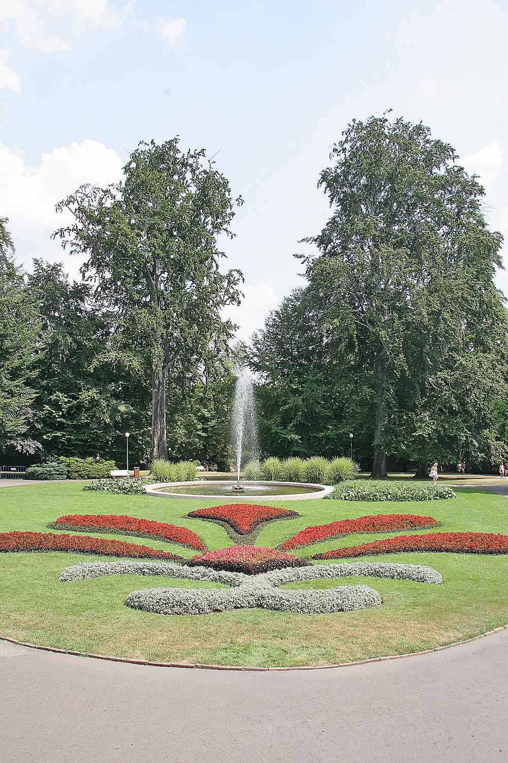 Royal gardens in Prague Castle